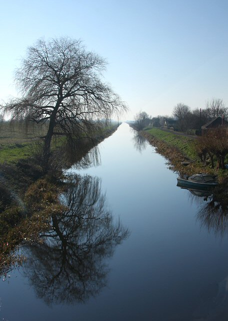 Old Bedford River at Welney Looking upstream from the road bridge at Welney.